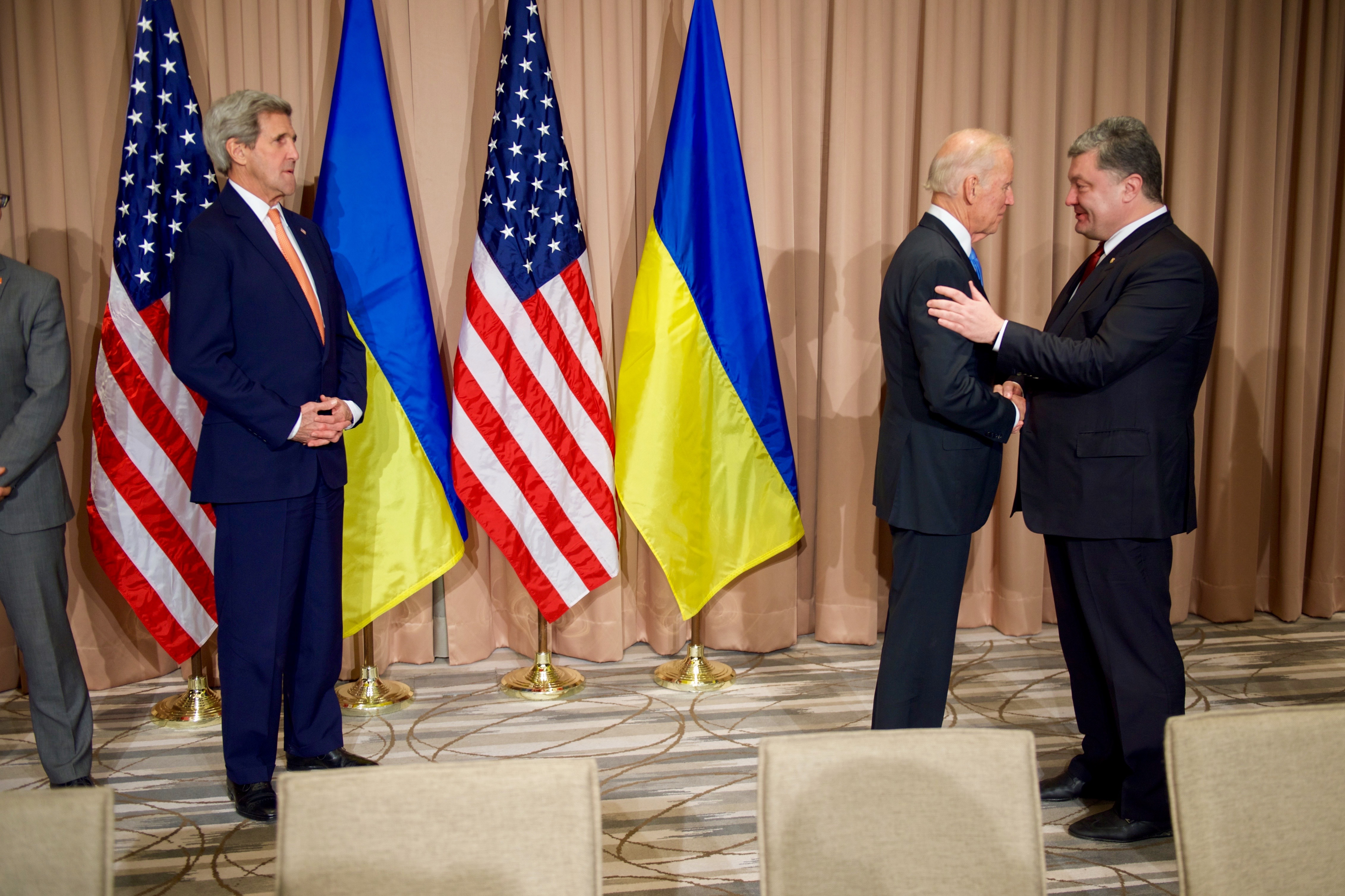 U.S. Secretary of State John Kerry looks as Vice President Joe Biden shakes hands with Ukrainian President Petro Poroshenko on January 20, 2016, at the Intercontinental Hotel in Davos, Switzerland, before a bilateral meeting on the sidelines of the World Economic Forum. [State Department photo/ Public Domain]